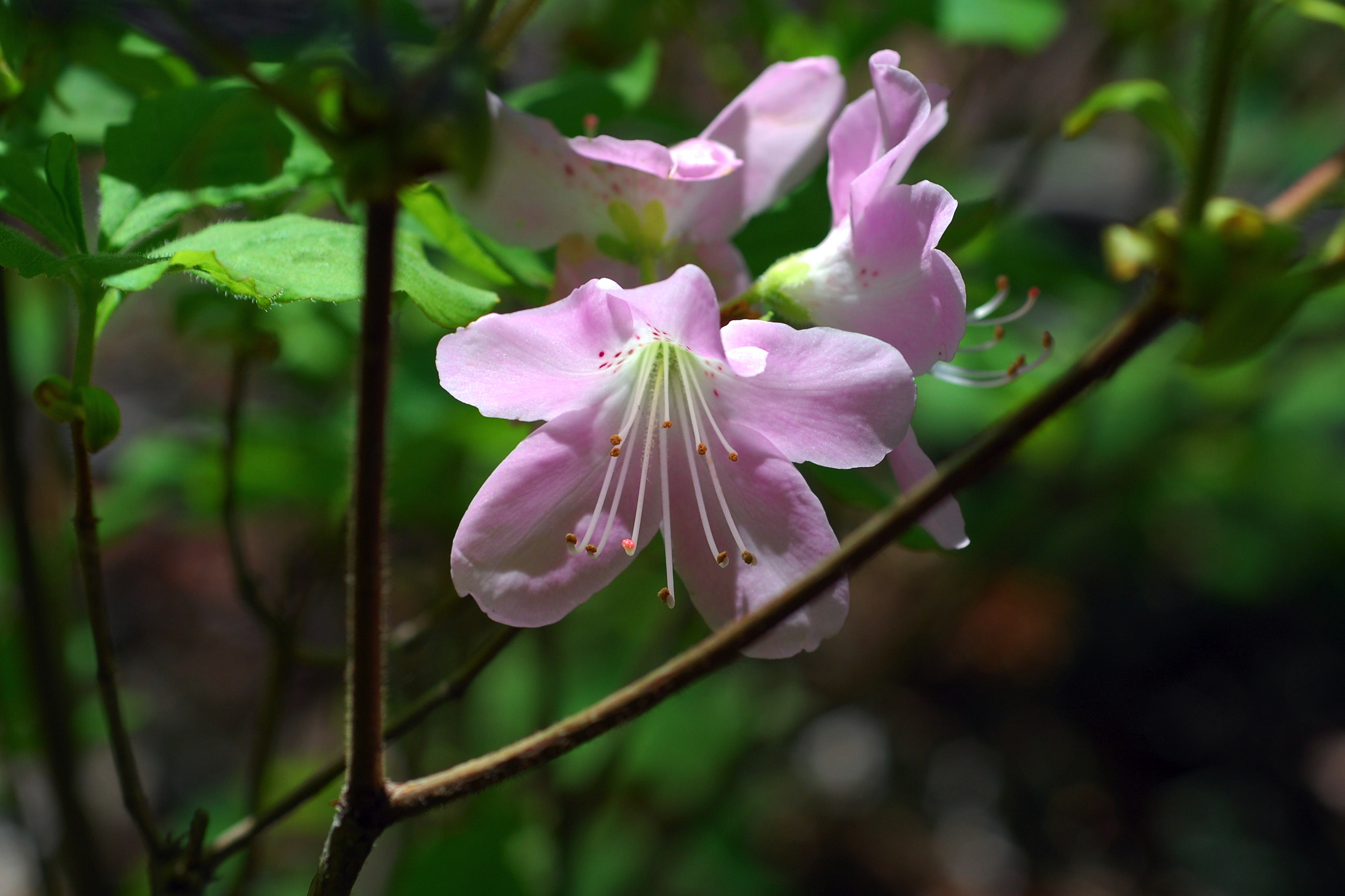 Rhododendron schlippenbachii, species from Korea, China, Japan, Russia Photographed at UC Berkeley Botanical Garden